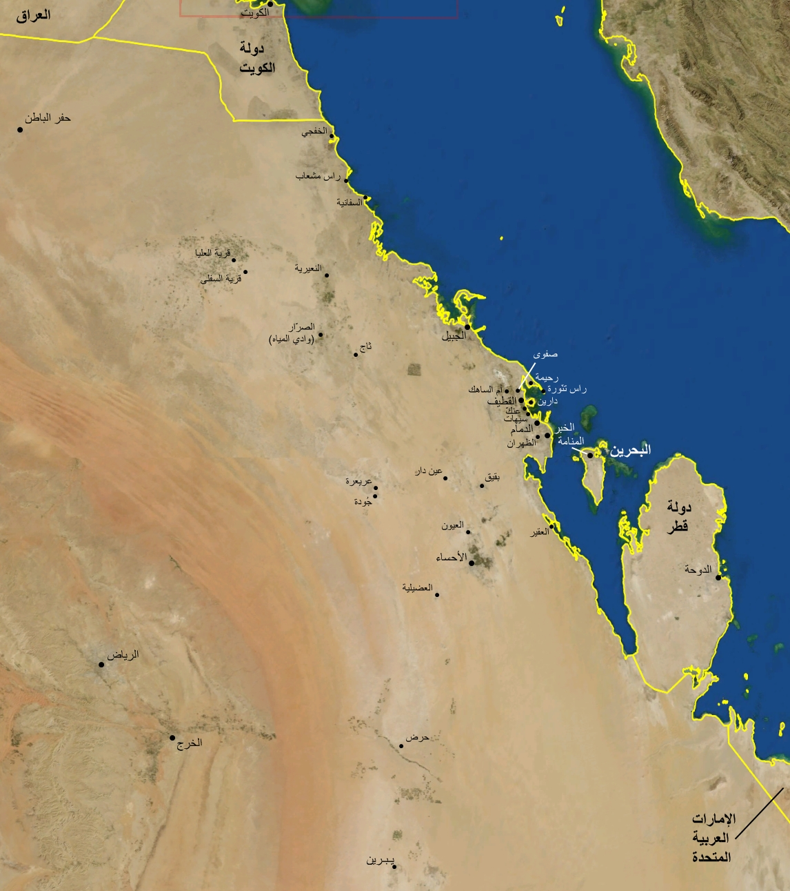 Sharqiyya, Saudi Arabia